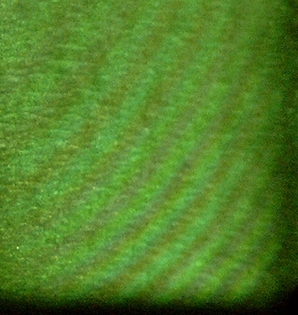 interference pattern of a mercury vapor bulb at a Michelson Interferometer